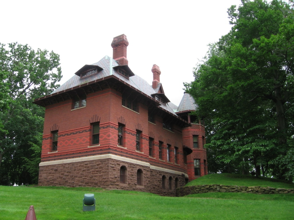 Northwest view of Mark Twain House